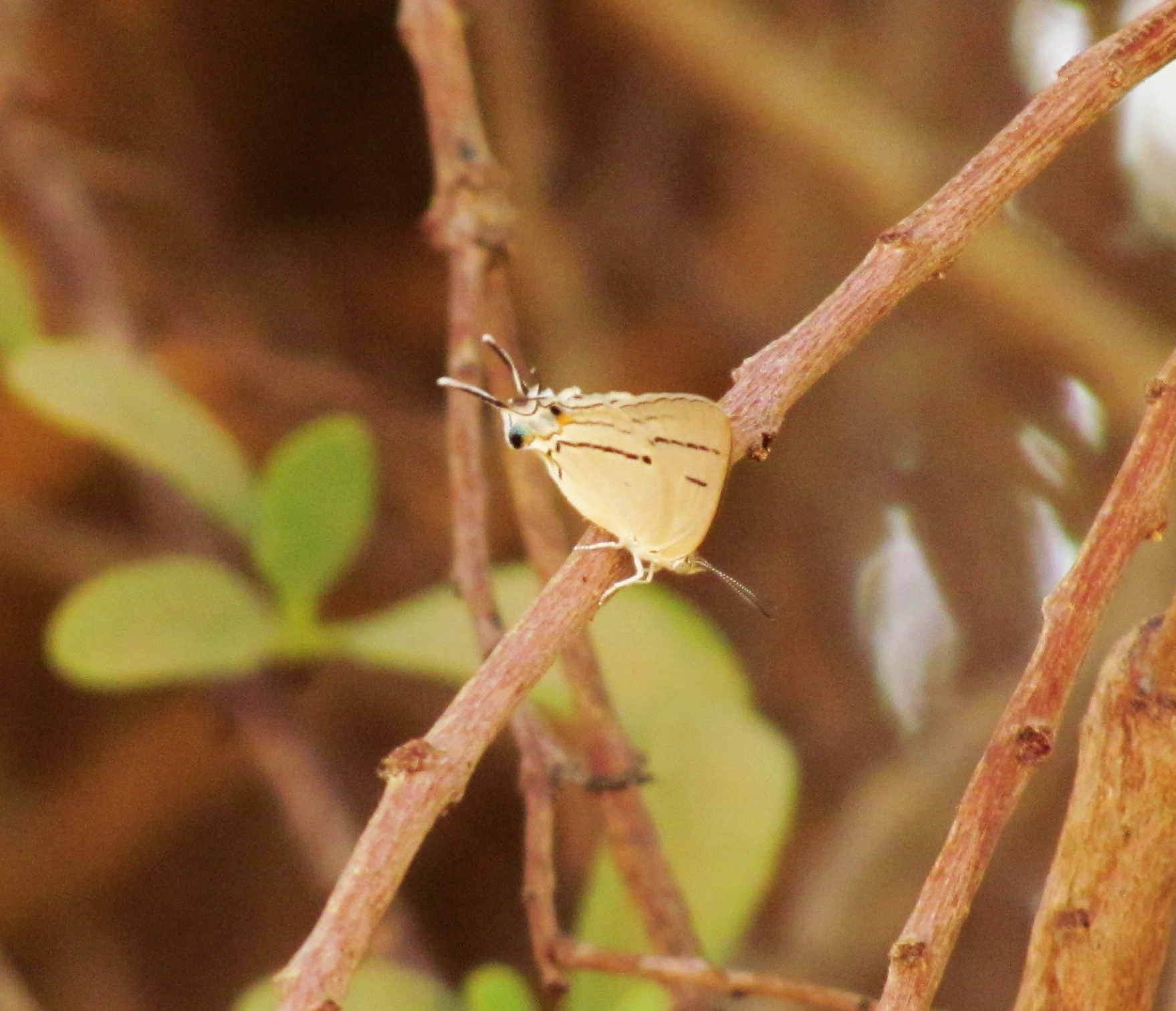 כחליל ההרנוג (Iolaus glaucus)